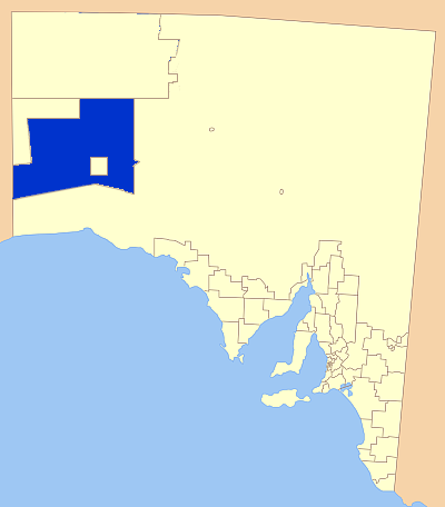 Map of South Australia showing the location of the Maralinga T. Local Government Area. A modification of GDFL map by Astrokey44; found here: File:SA_LGA_blank.png